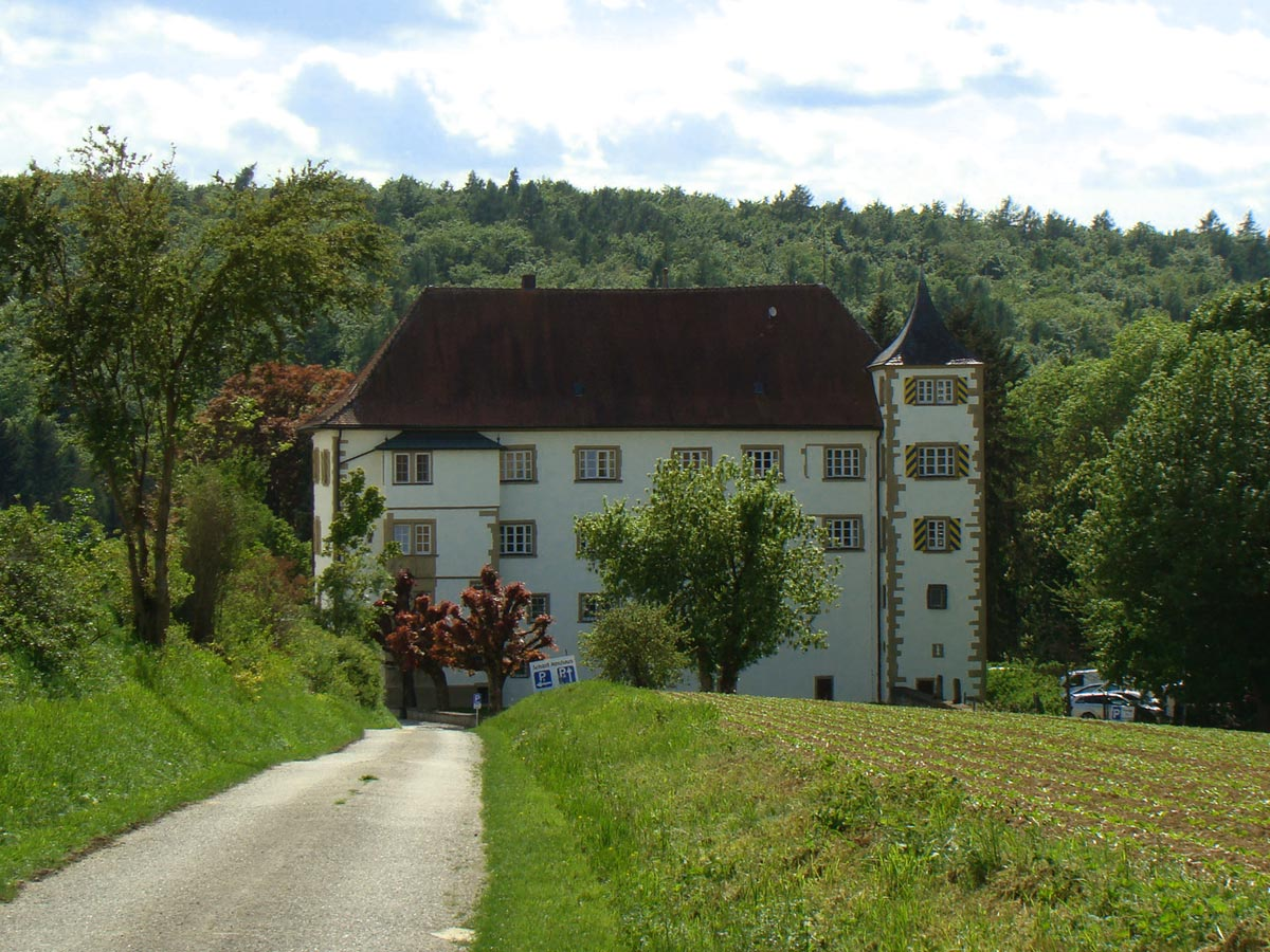 Schloss Neuhaus in Sinsheim-Ehrstädt